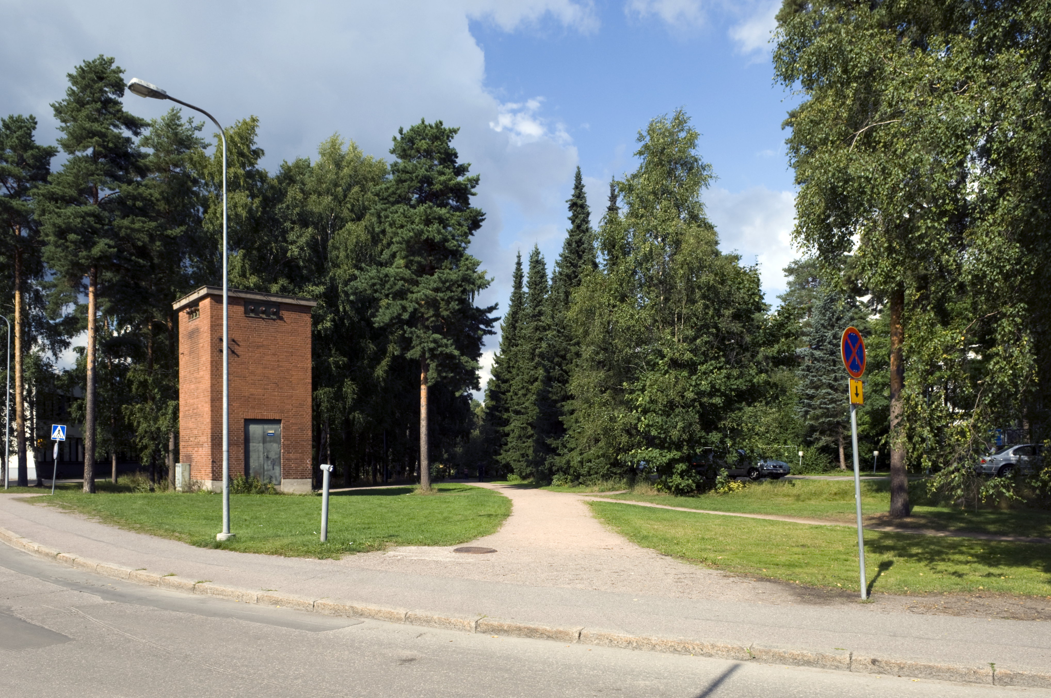 A footpath in Munkkivuori, Helsinki, Finland.